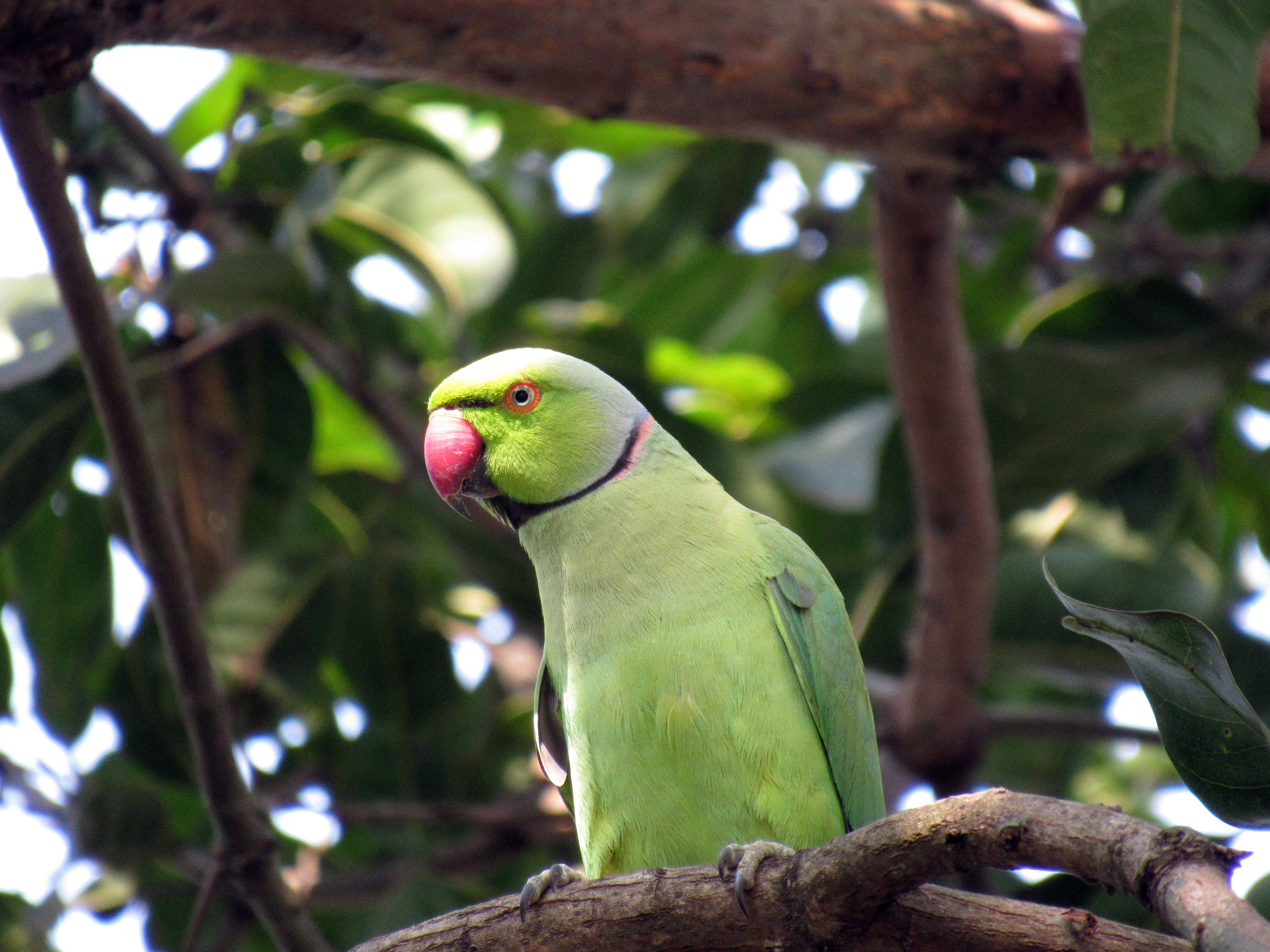 Rose-ringed parakeet (Psittacula krameri manillensis), in Sri Lanka.